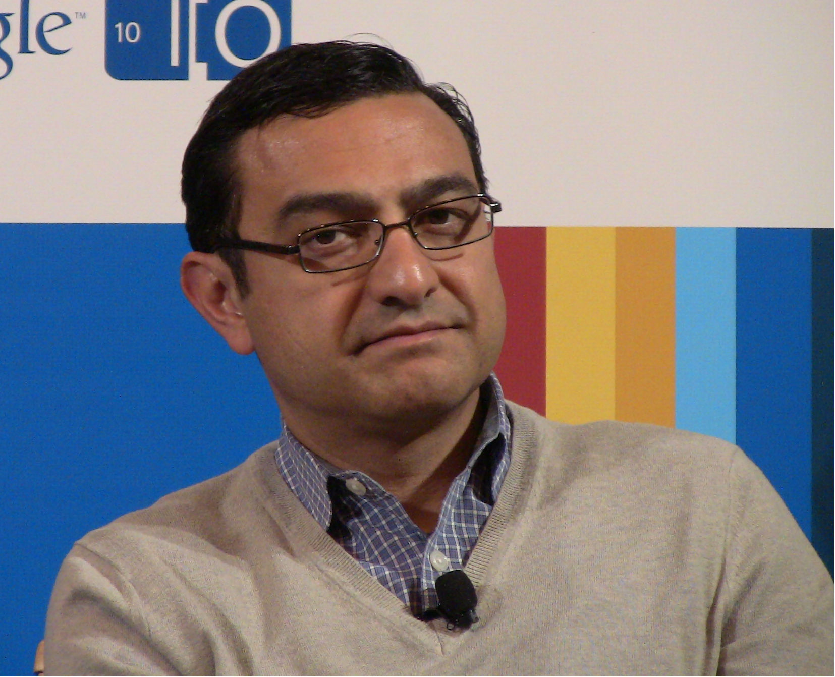 Google VP Engineering Vic Gundotra